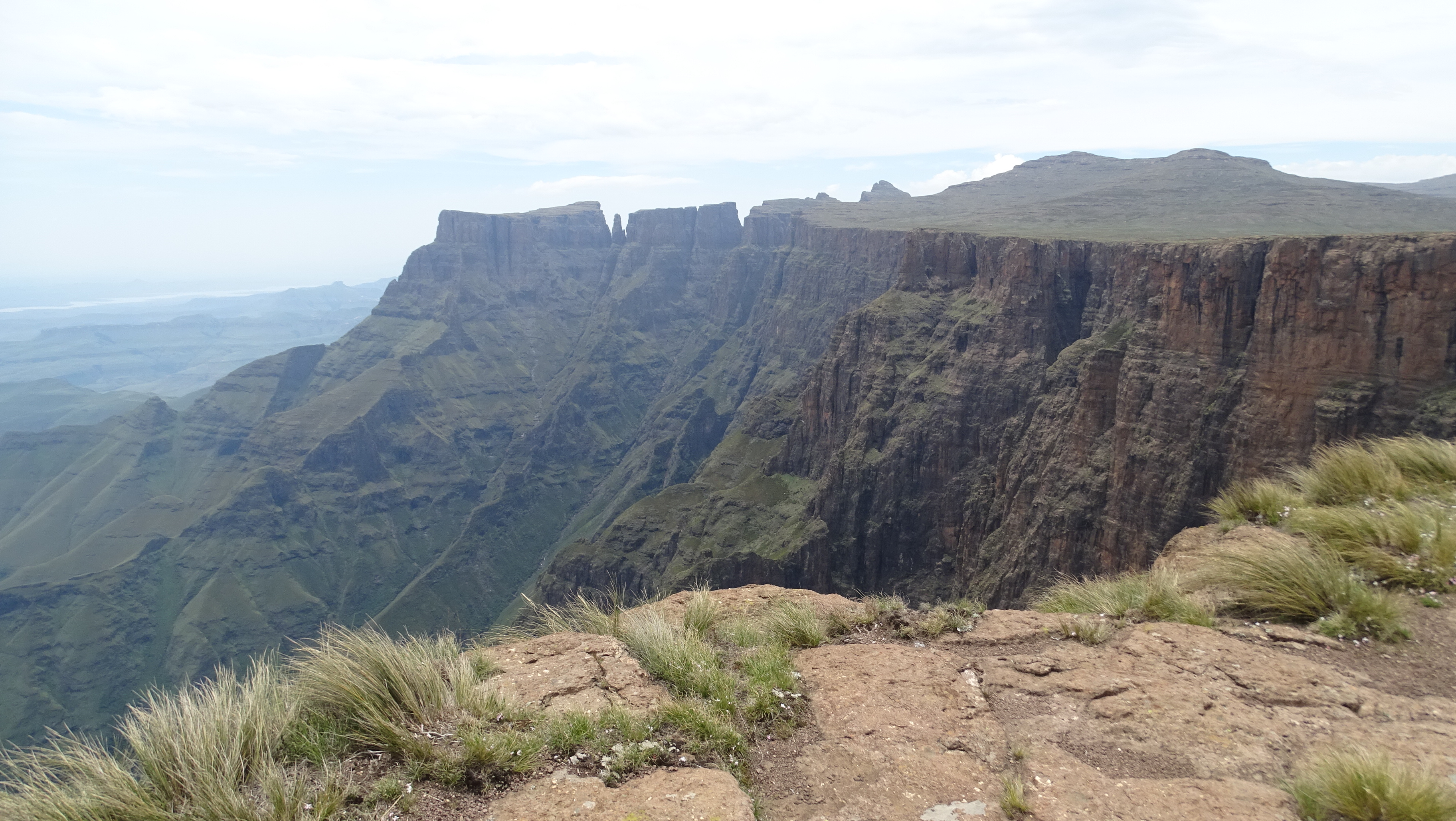 Mont-Aux-Sources seen from Tugela-Waterfall